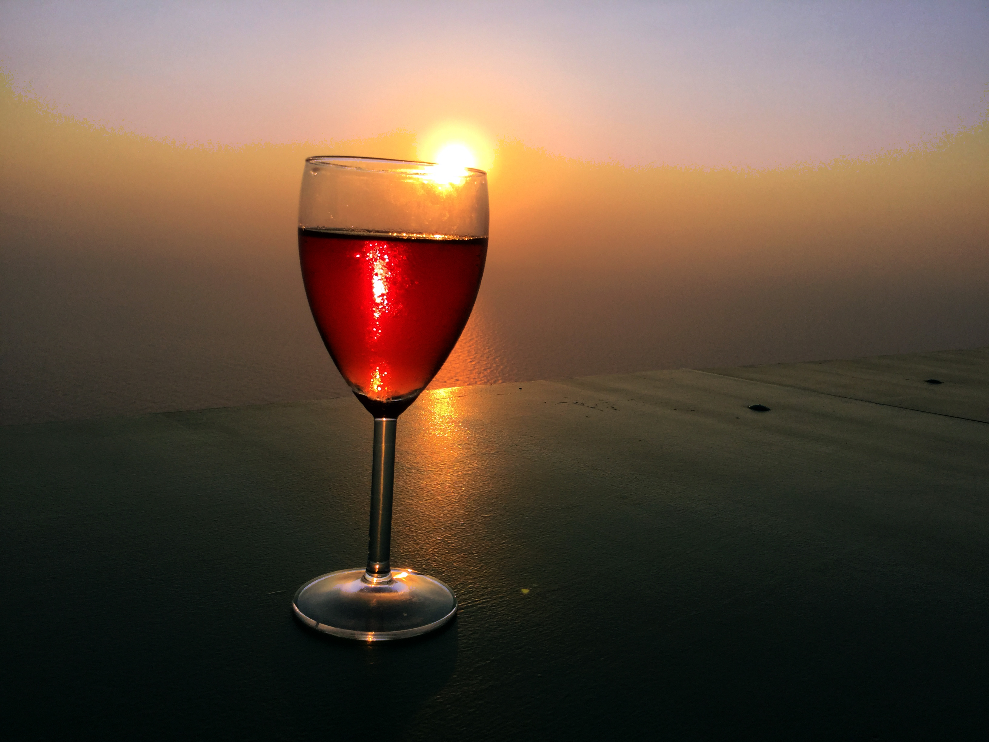 Glass of wine at Manali Winery, Sikinos.